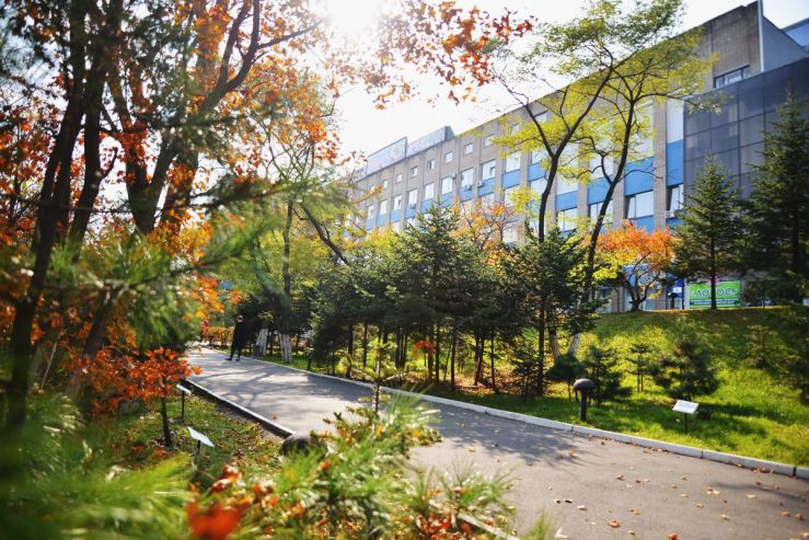 the main campus